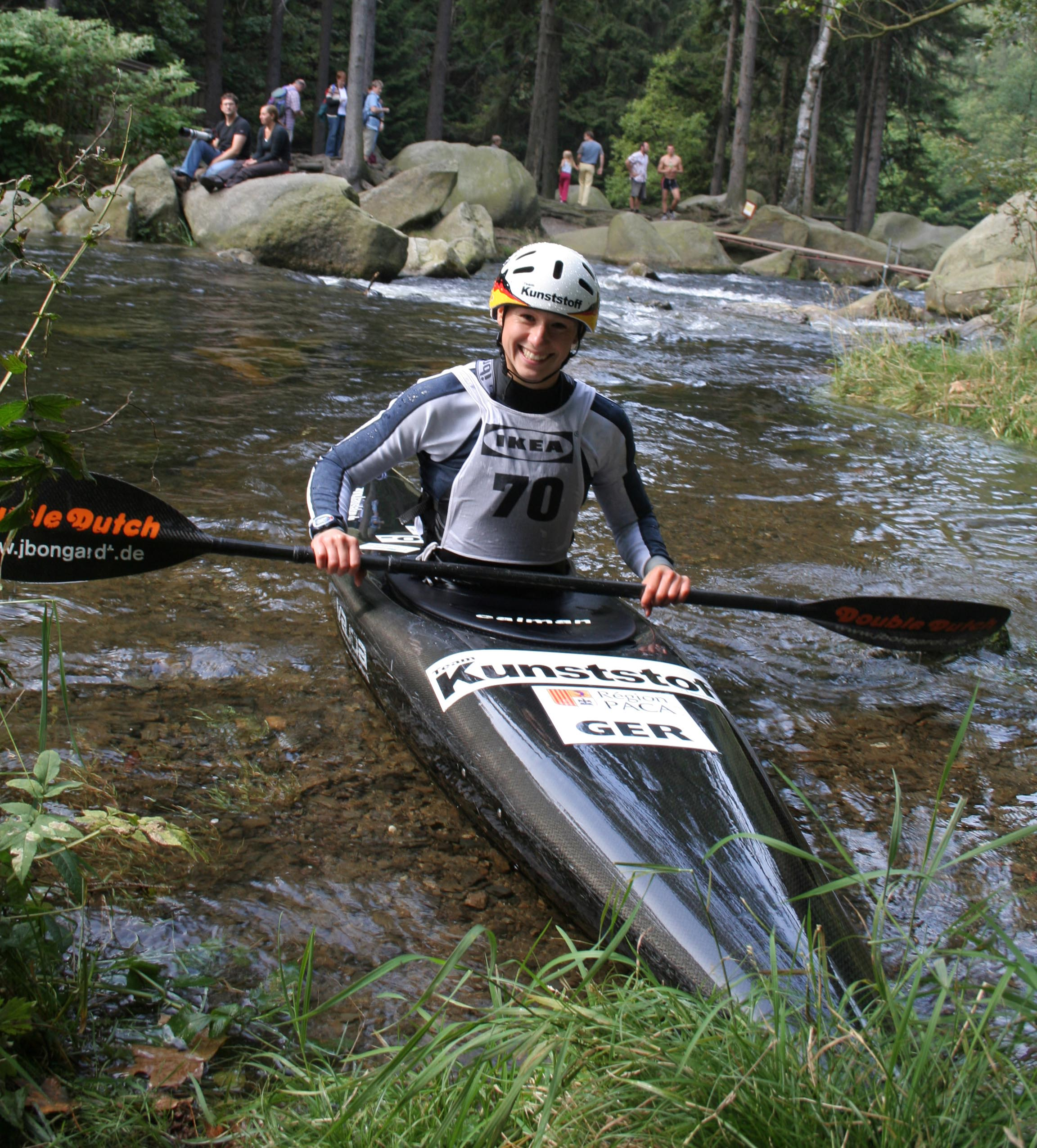 Image of Jennifer Bongardt at the german national championships canoe-slalom 2006 on the river Oker at Romkerhalle (Hartz Mountains) after finishing the run.